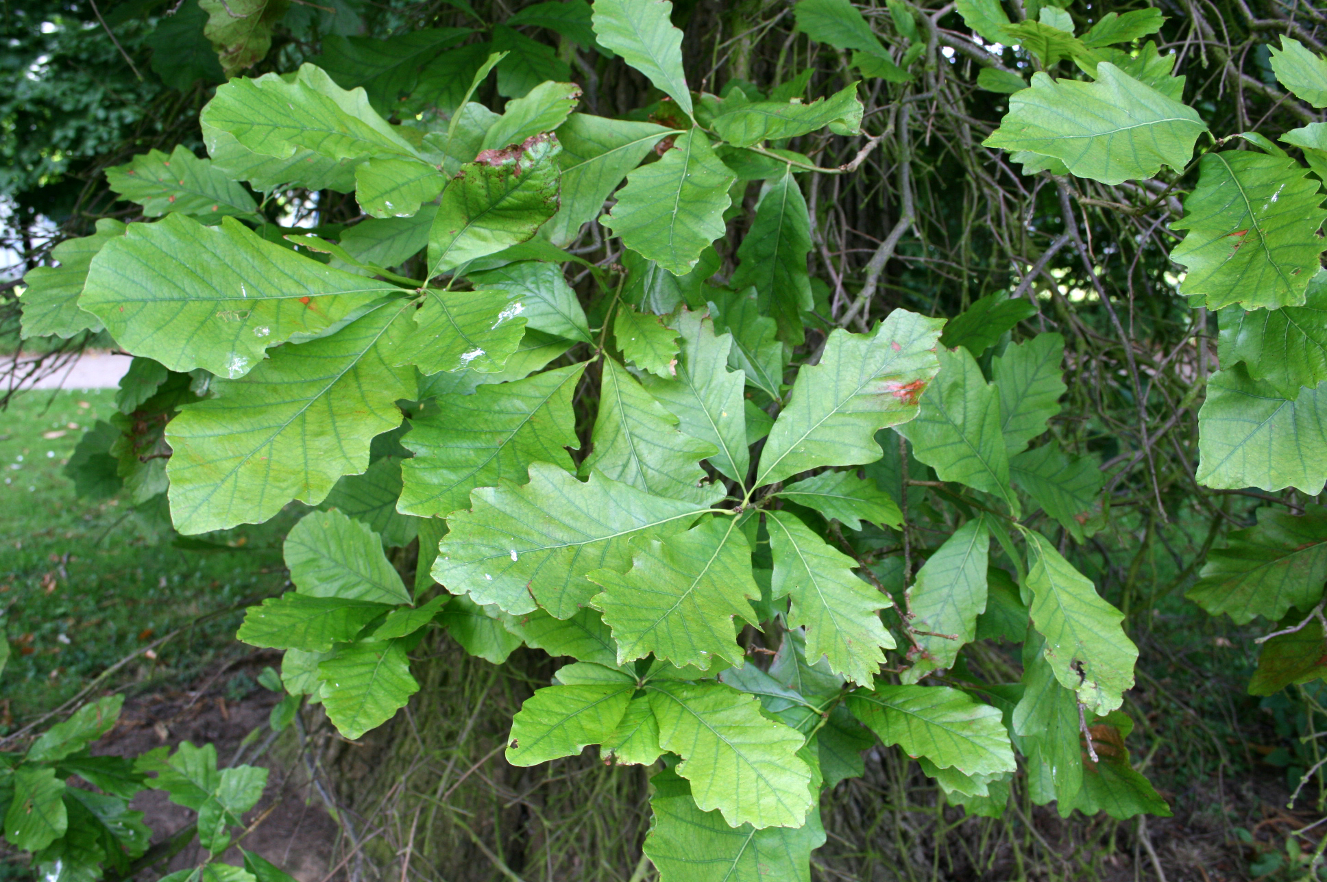 Swamp White Oak (Quercus bicolor) leaves National Botanic Garden of Belgium - Meise (Belgium).